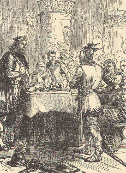 King Harold Godwinson receiving the news of the Norman invasion.